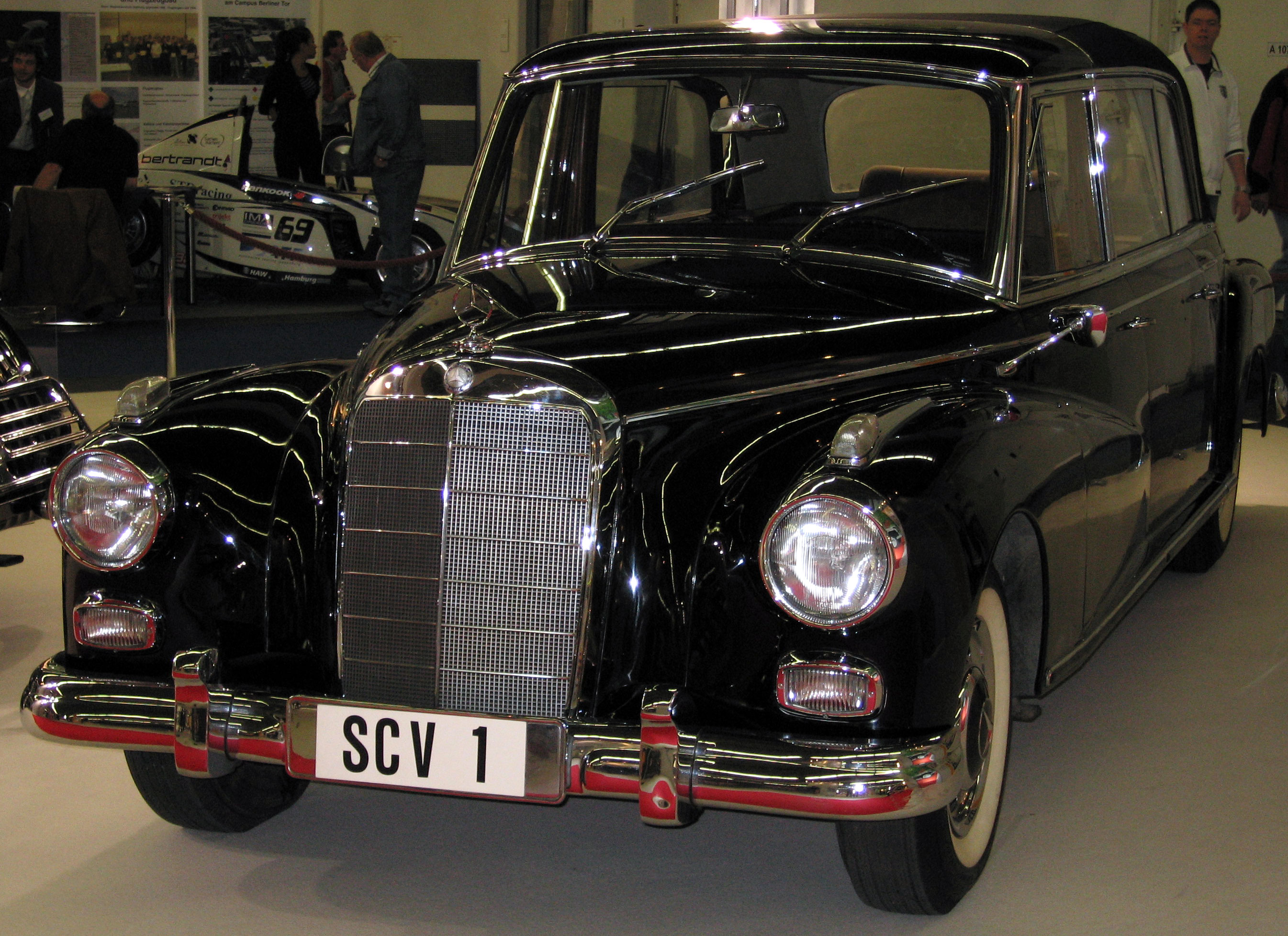 Mercedes-Benz Typ 300 d Landaulet (W189) Pullmann Landaluet Popemobile for Pope John XXIII